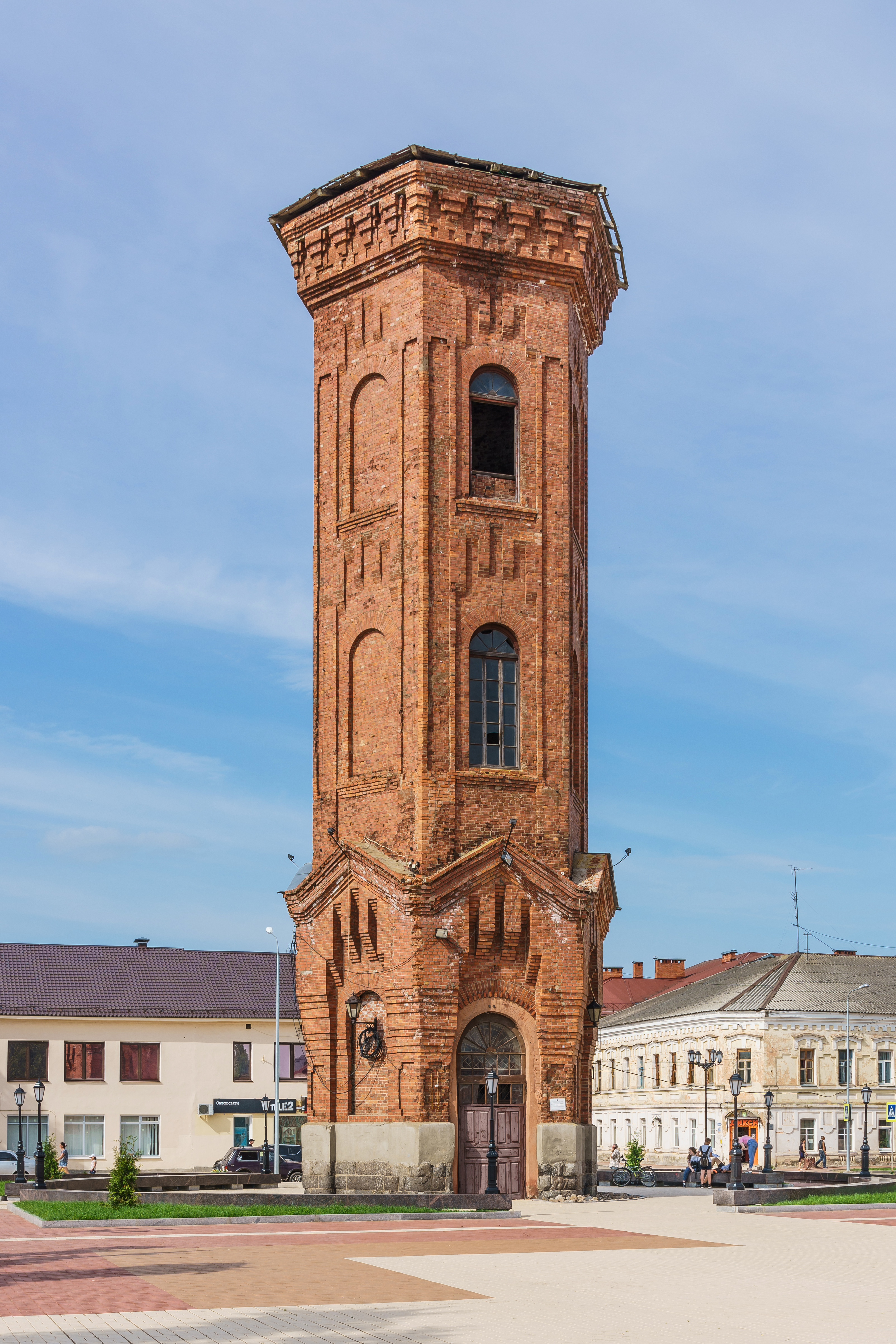 Water tower at Cathedral Square in Staraya Russa, Novgorod Oblast, Russia